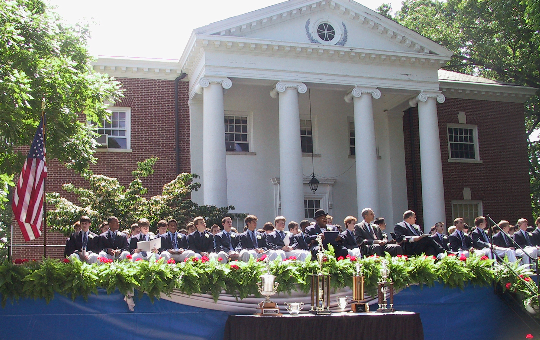 Commencement ceremonies for the class of 2003. Old Gym visible in the background; awards in the foreground.